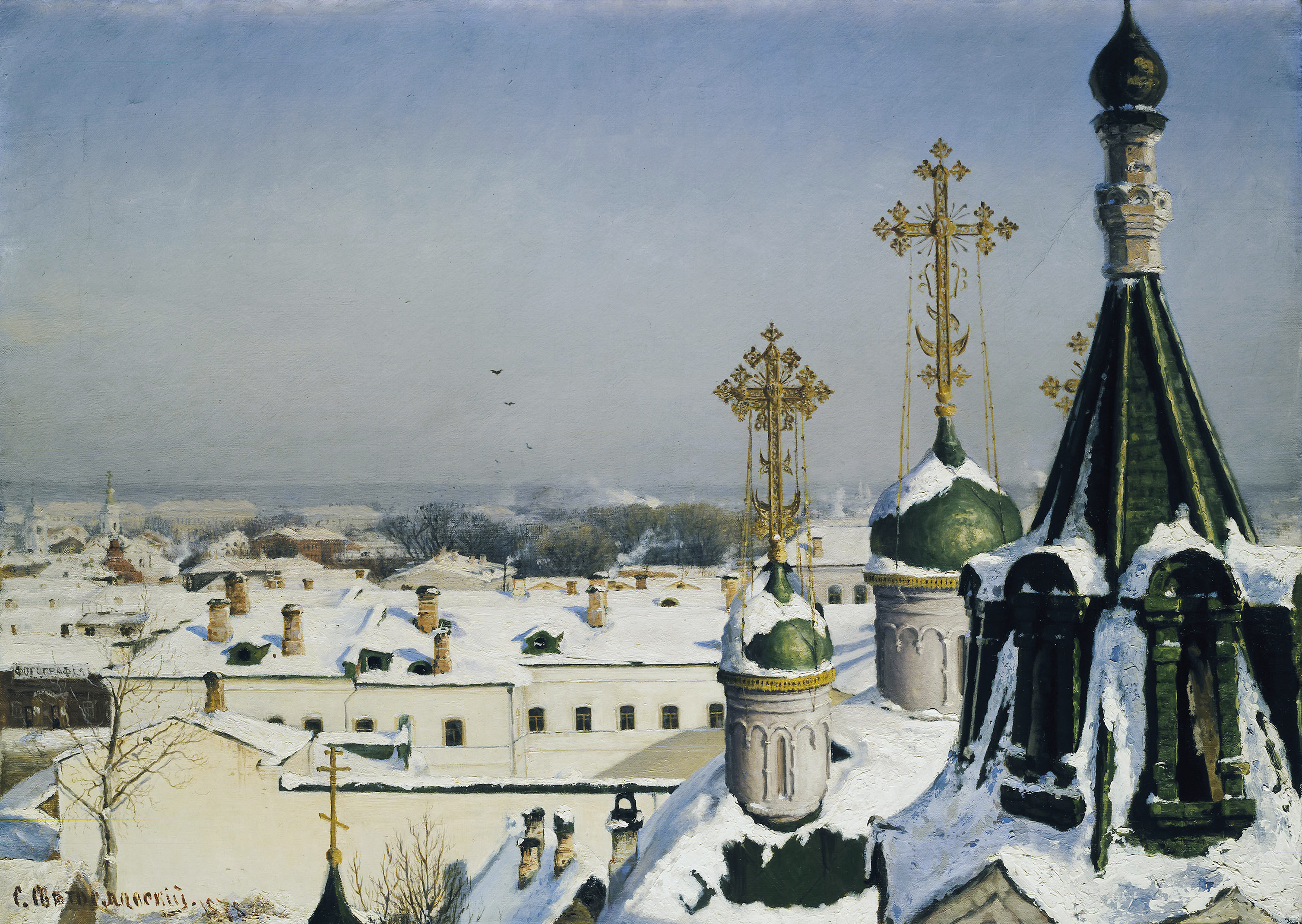 S.I. Svetoslavsky Title